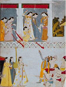 "Celebration of Spring by Krishna and Radha," 18th Century miniature; in the Guimet Museum, Paris.